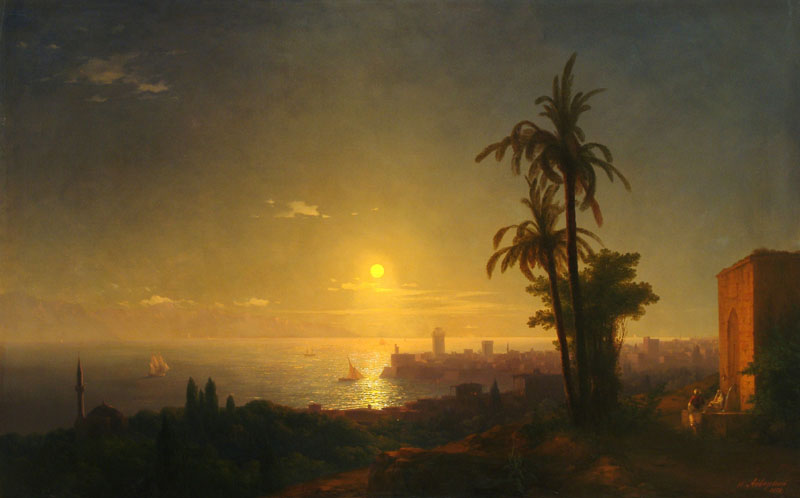 Aivasovsky Ivan Constantinovich — Night at the Rodos island Беларуская (тарашкевіца): Карціна выбітнага расейскага марыніста Івана Айвазоўскага «Ноч на высьпе Родас»